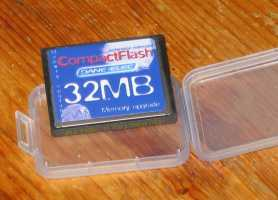 Carte CompactFlash (Photo: moi-même :-) )